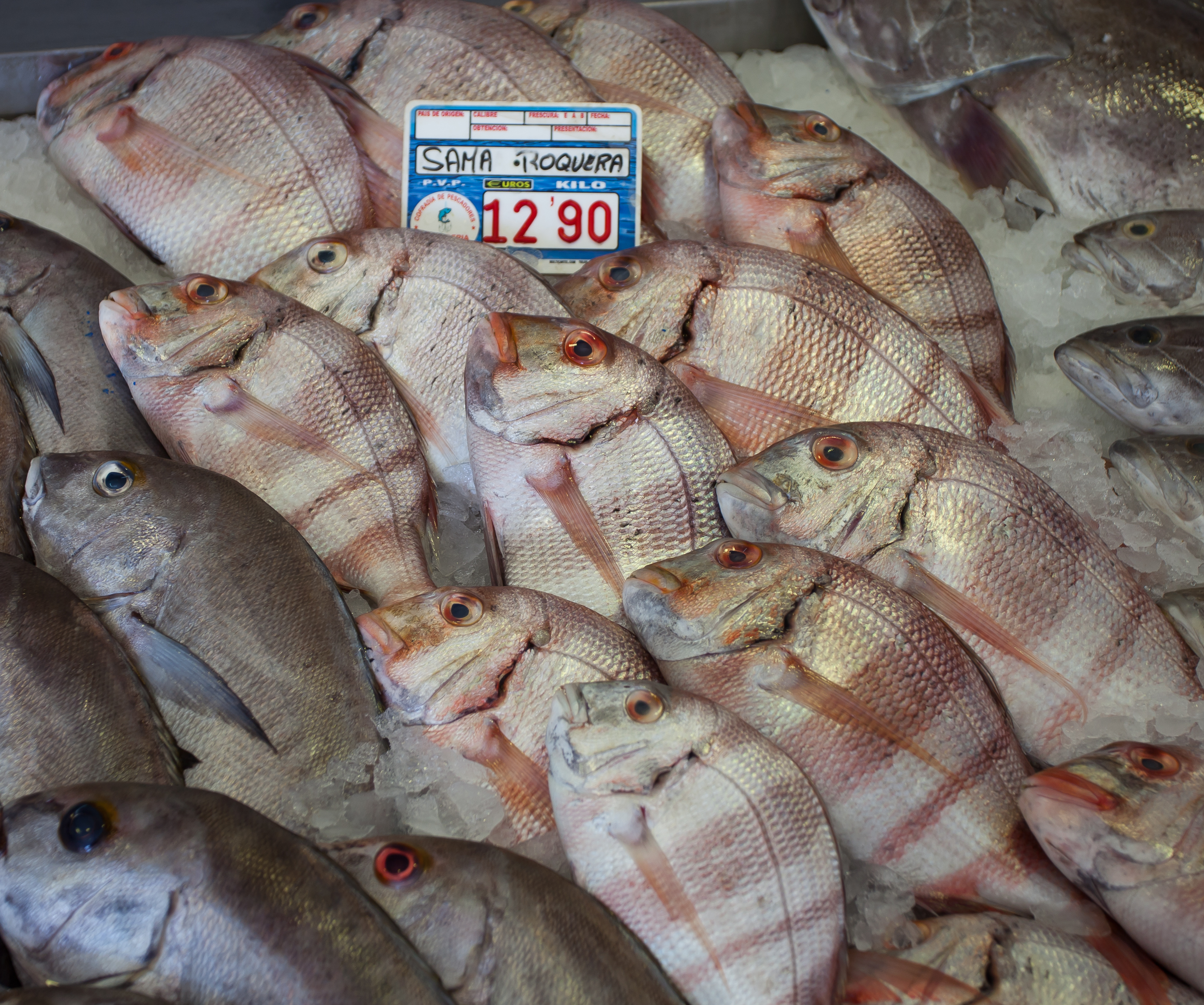 Pagrus auriga, Port of Playa Blanca, Lanzarote